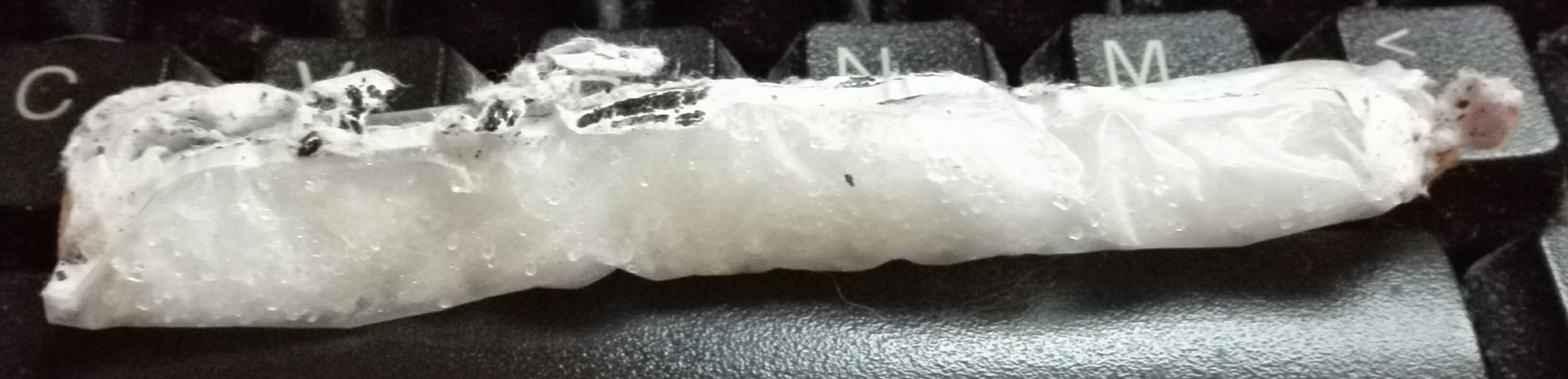 Sugar packet that survived the washing machine. De plastic inner coating is visible.